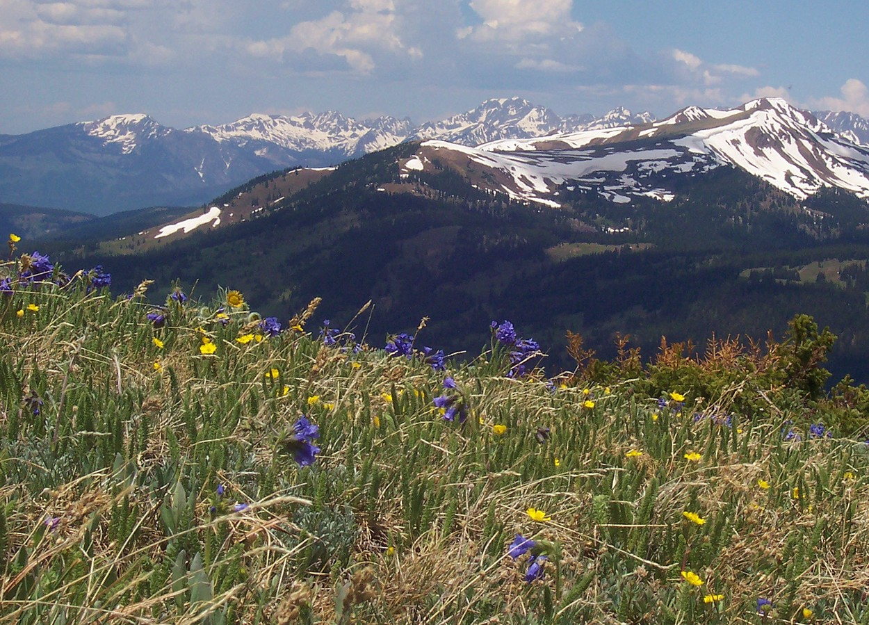 Sky pilot, alpine buttercup, and old-man-of-the-mountain in full bloom at 12,100' on Copper Mountain.